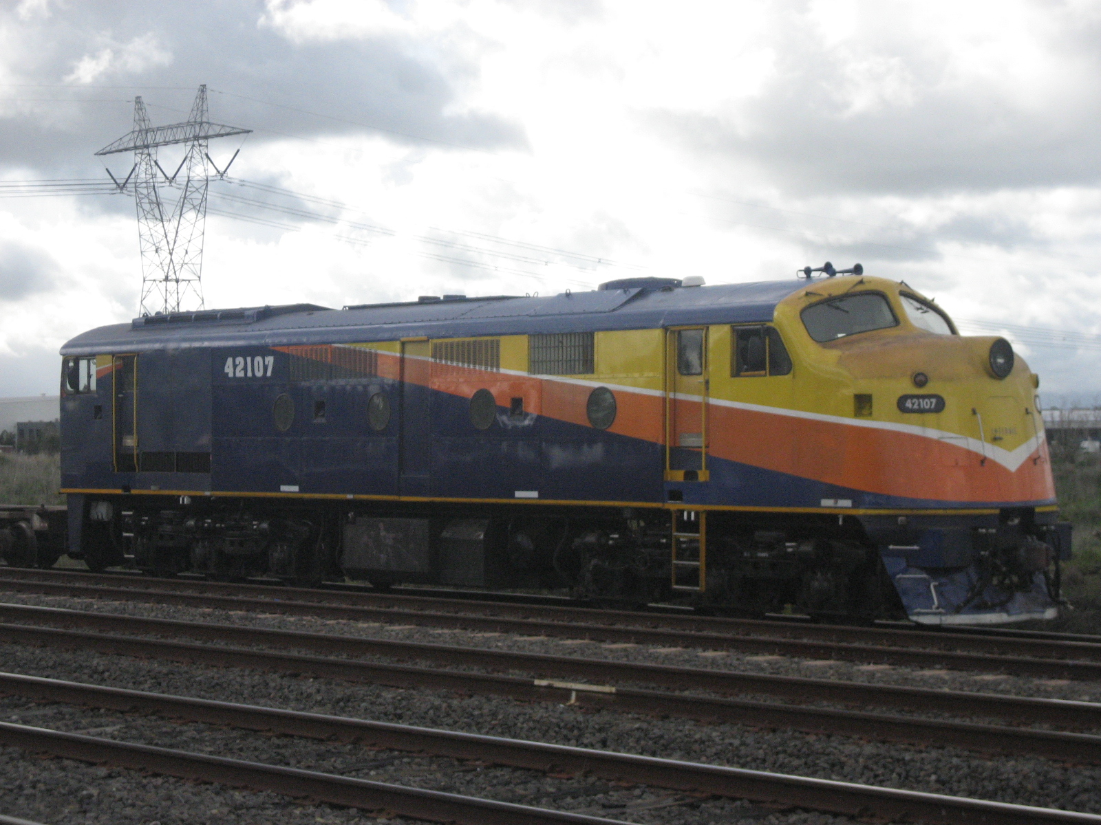 42107 in Interail livery at Somerton, Victoria.